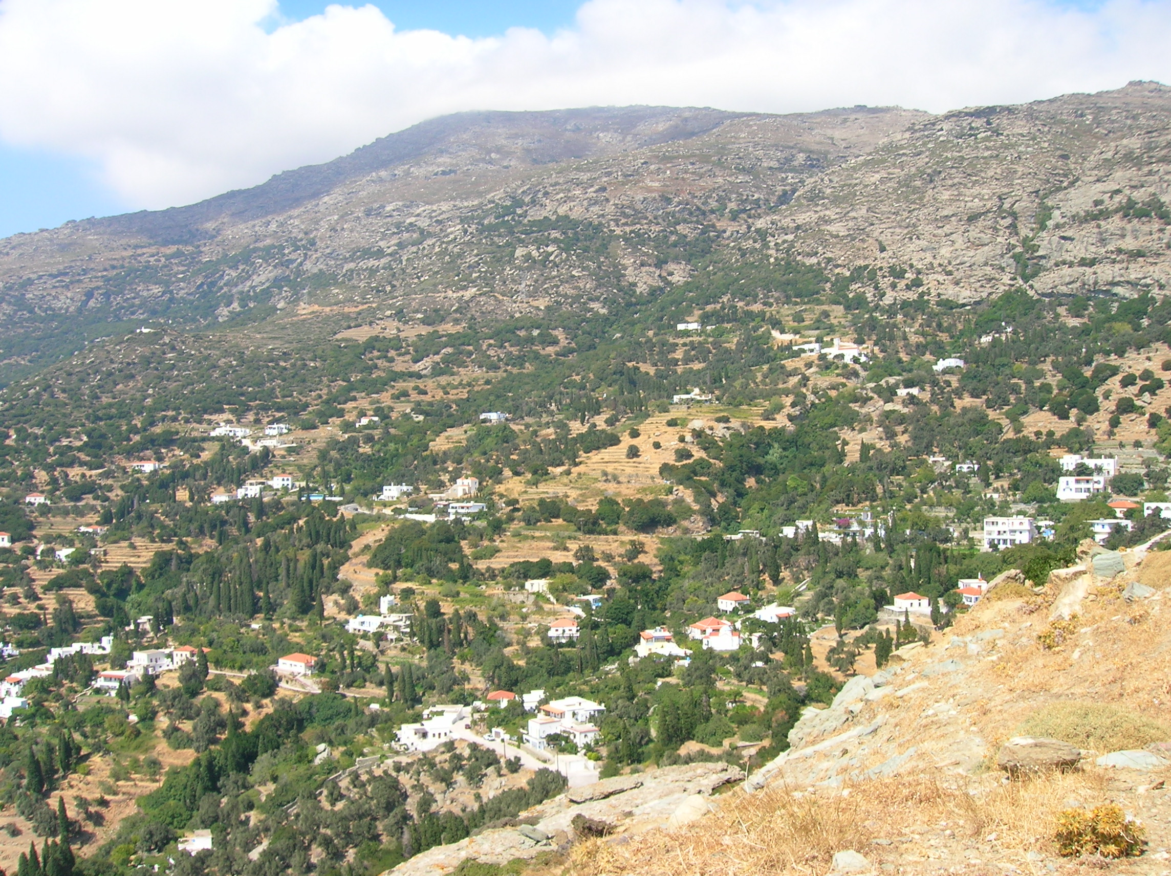 Photo taken by me in summer 2005, in Palaiopolis, Andros.